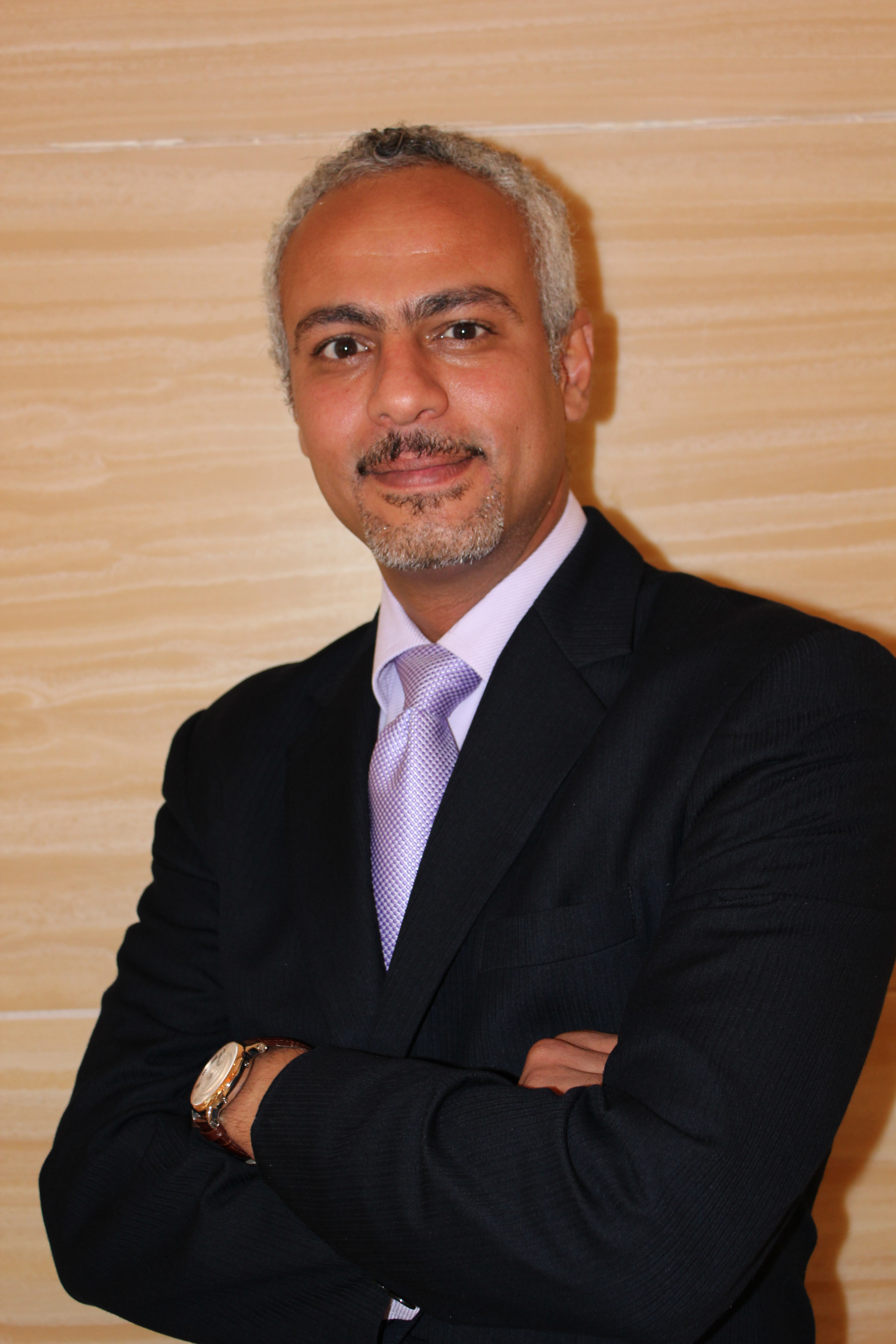 A photo of Khalid Altowelli in the Saudi pavilion at Shanghai expo 2010